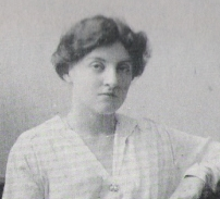 Princess Nadejda Petrovna of Russia